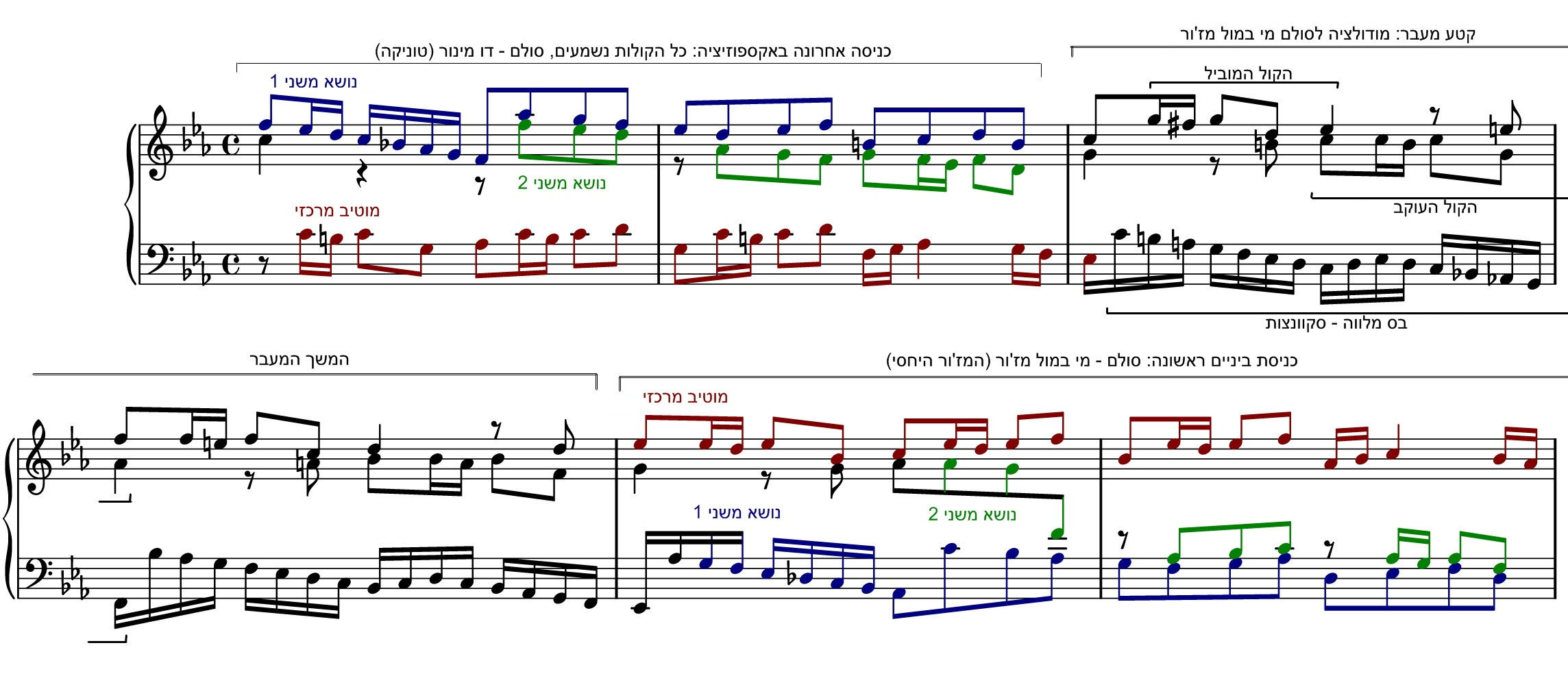 Analysis by Matt.kaner of a portion of Johann Sebastian Bach's C minor Fugue (BWV 847) from The Well-Tempered Clavier Book 1. Typset in lilypond/edited in photoshop. Translated to Hebrew.